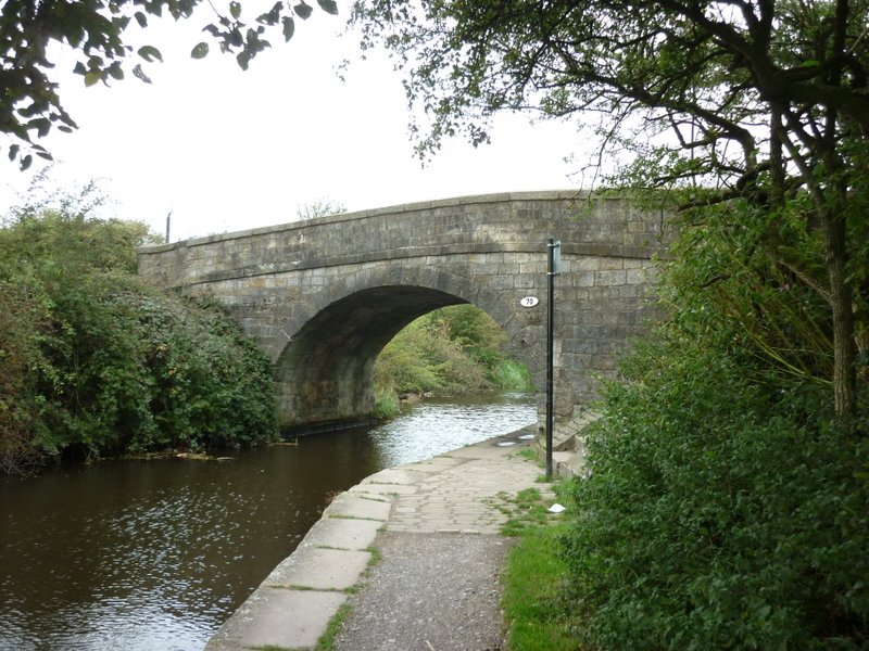 Photograph of Scowcroft Lane Bridge over the Rochdale Canal, Chadderton, Greater Manchester, England